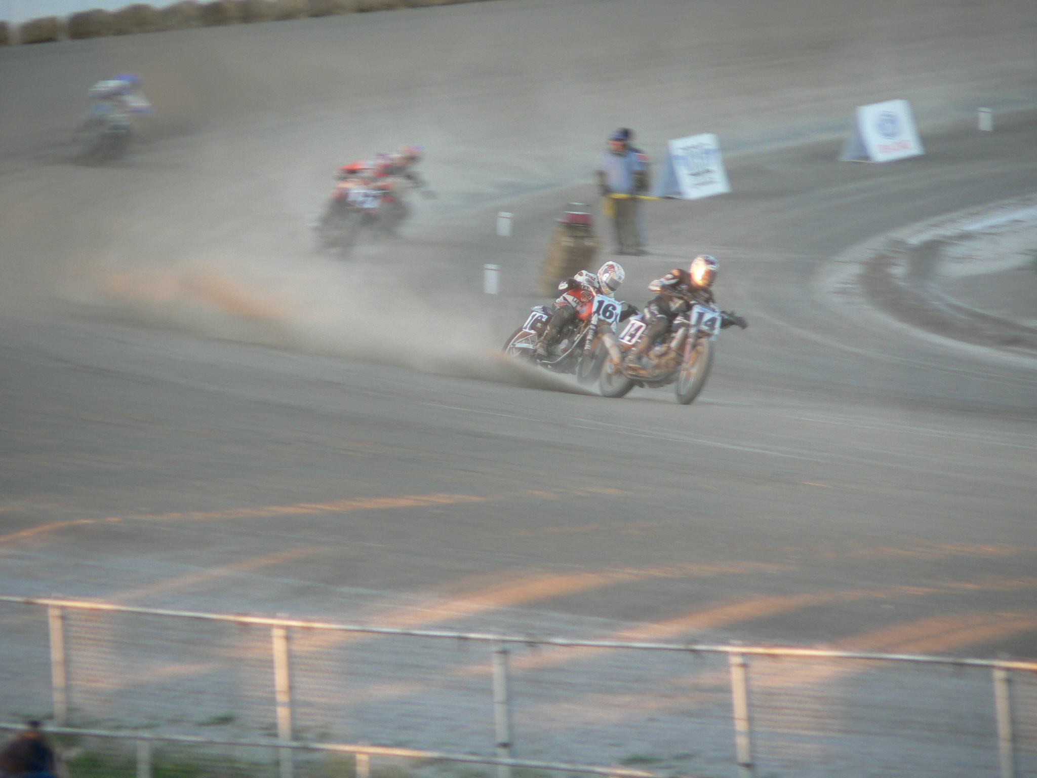 Turn 4 action , coming down to the flag. If your not in first I don't think you can really see anything. This shot doesn't really show you just how dusty it really is. I would have tried to get a lot closer to the track but if you see the guy in the lower left hand corner. They wouldn't let us stand down there because they were shooting video and I would have been in the way.